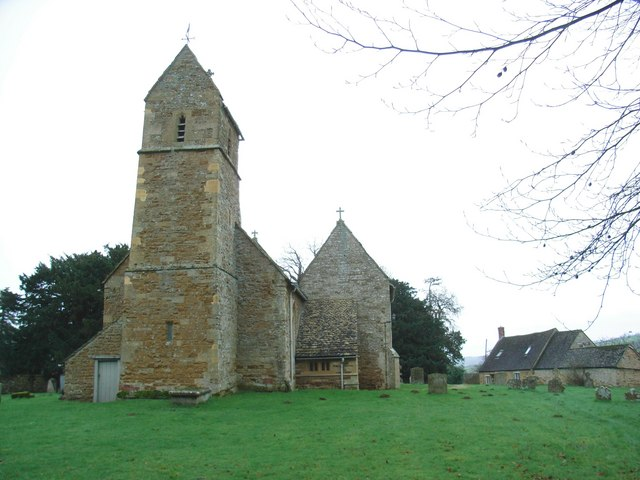 St. Lawrence Church, Barton-on-the-Heath